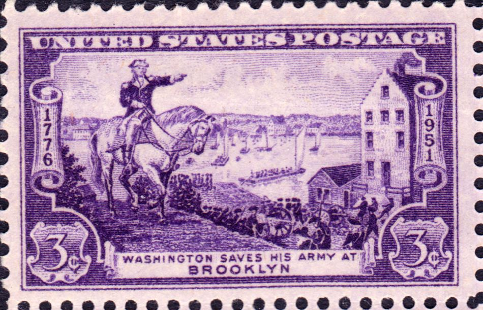 US Postage stamp, Washington at Brooklyn, 1951 Issue, 3c